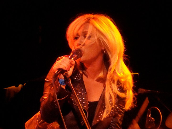 Lisa Rieffel of Killola during their performance at The Roxy in Hollywood, Ca.